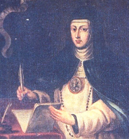 Portrait of María de Jesús de Agreda (1602-1665)